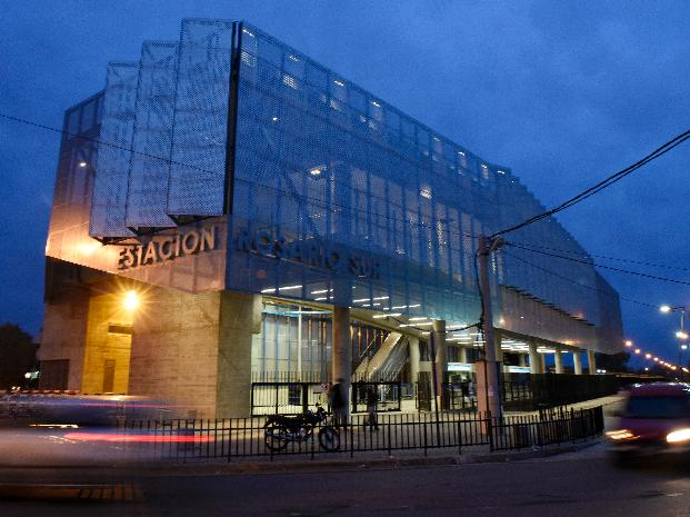 Rosario Sur train station after the remodelling. The station had been built in 1981, being reopened by the National Government in 2015.